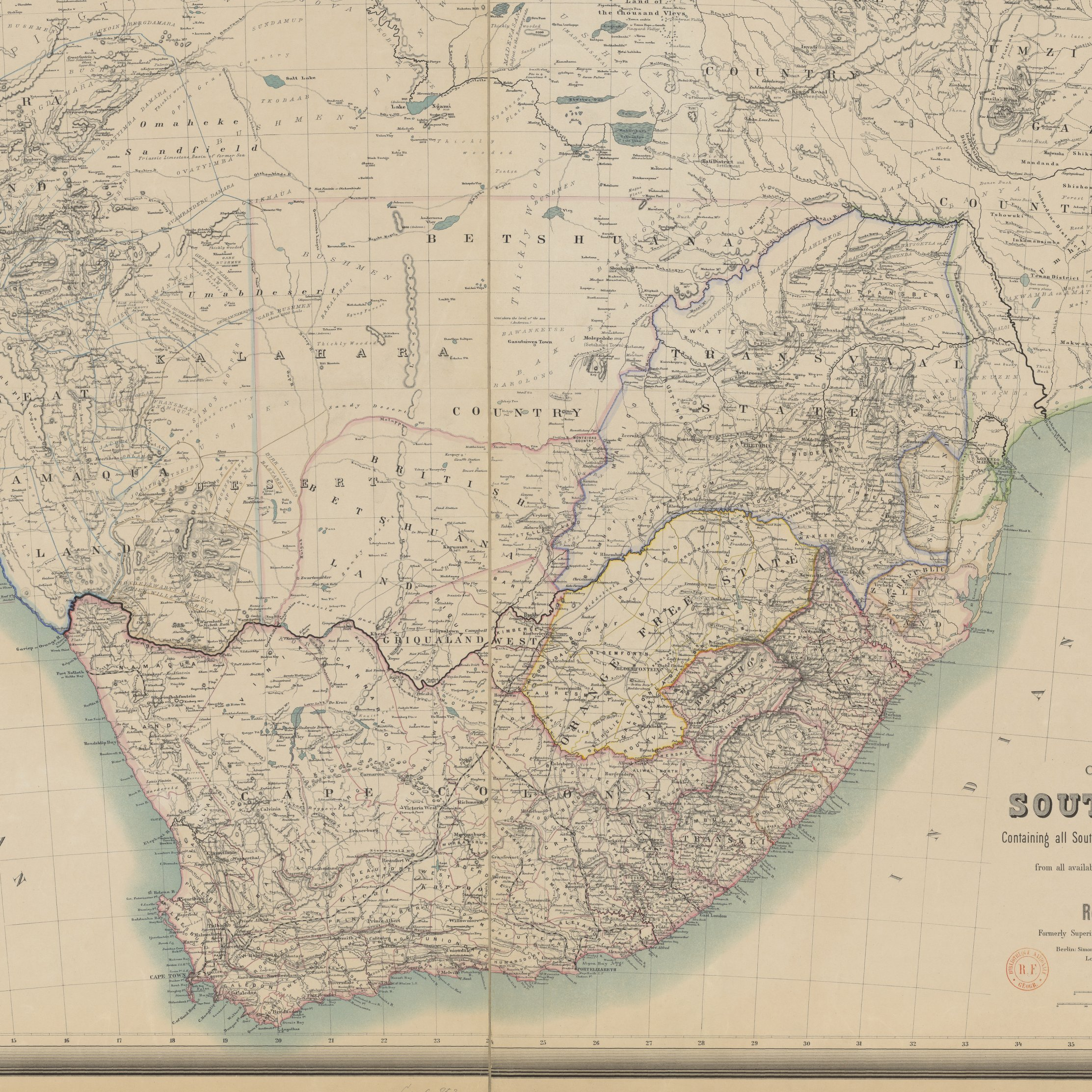 Original Map of South Africa, containing all south african colonies and native territories